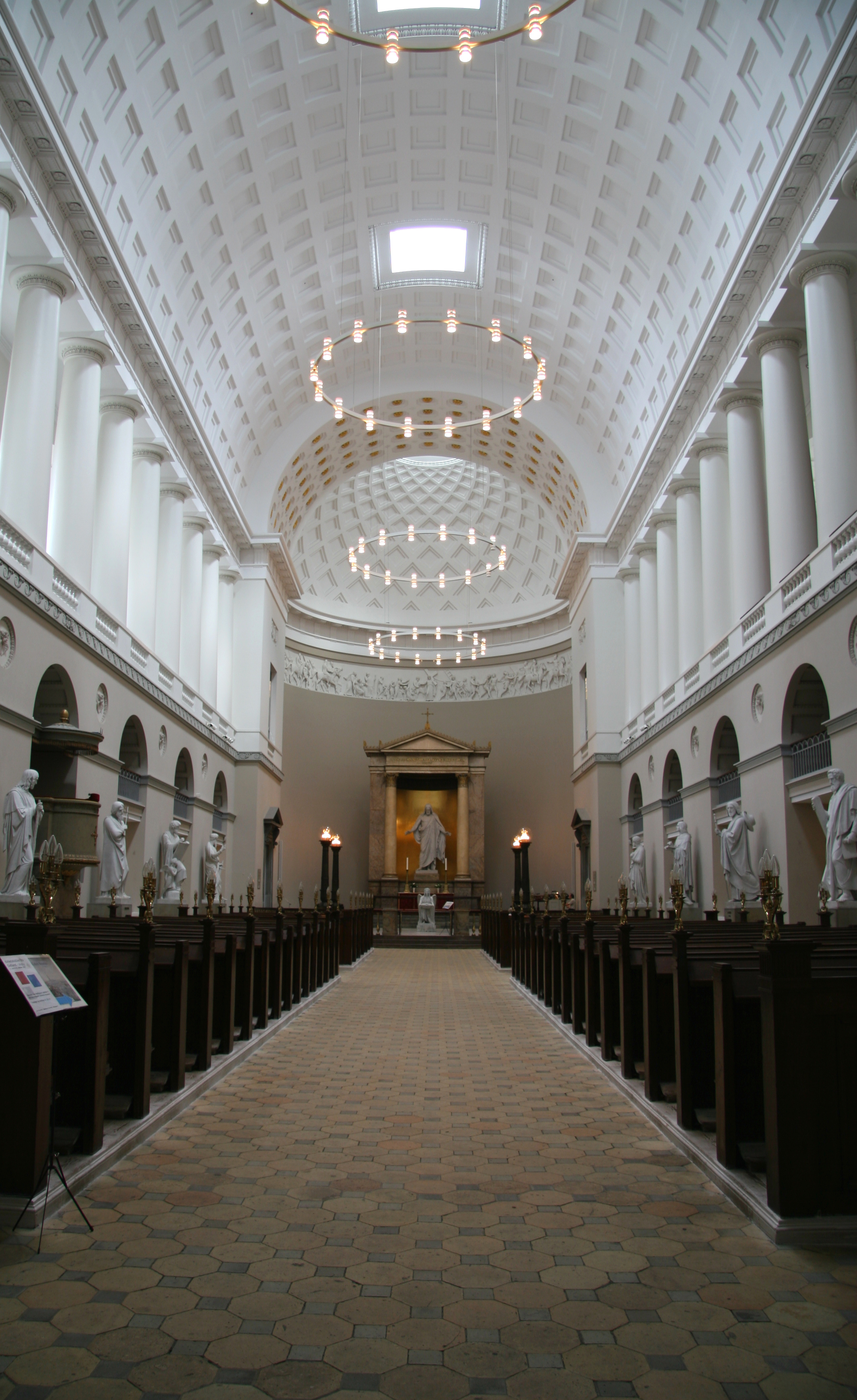 Vor Frue Kirke in Copenhagen, Denmark. The cathedral of Copenhagen. Interior, portrait format.